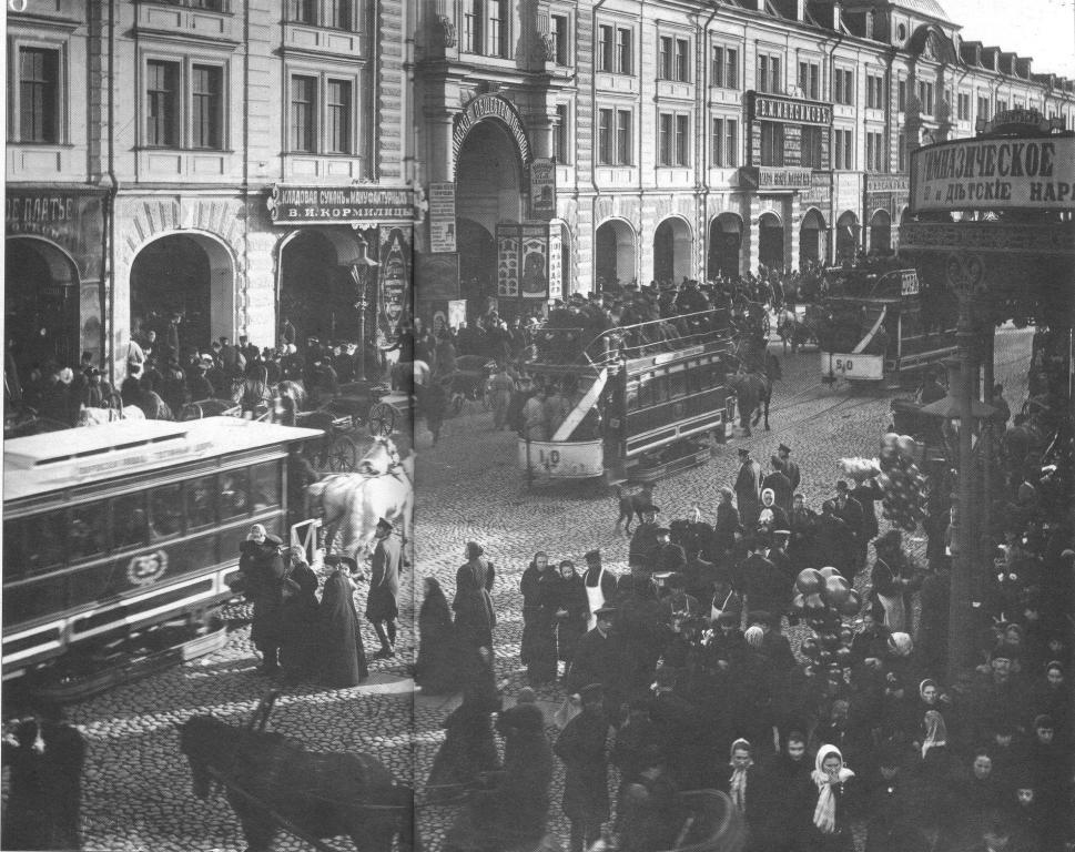 Horsetram on Sadovaya street